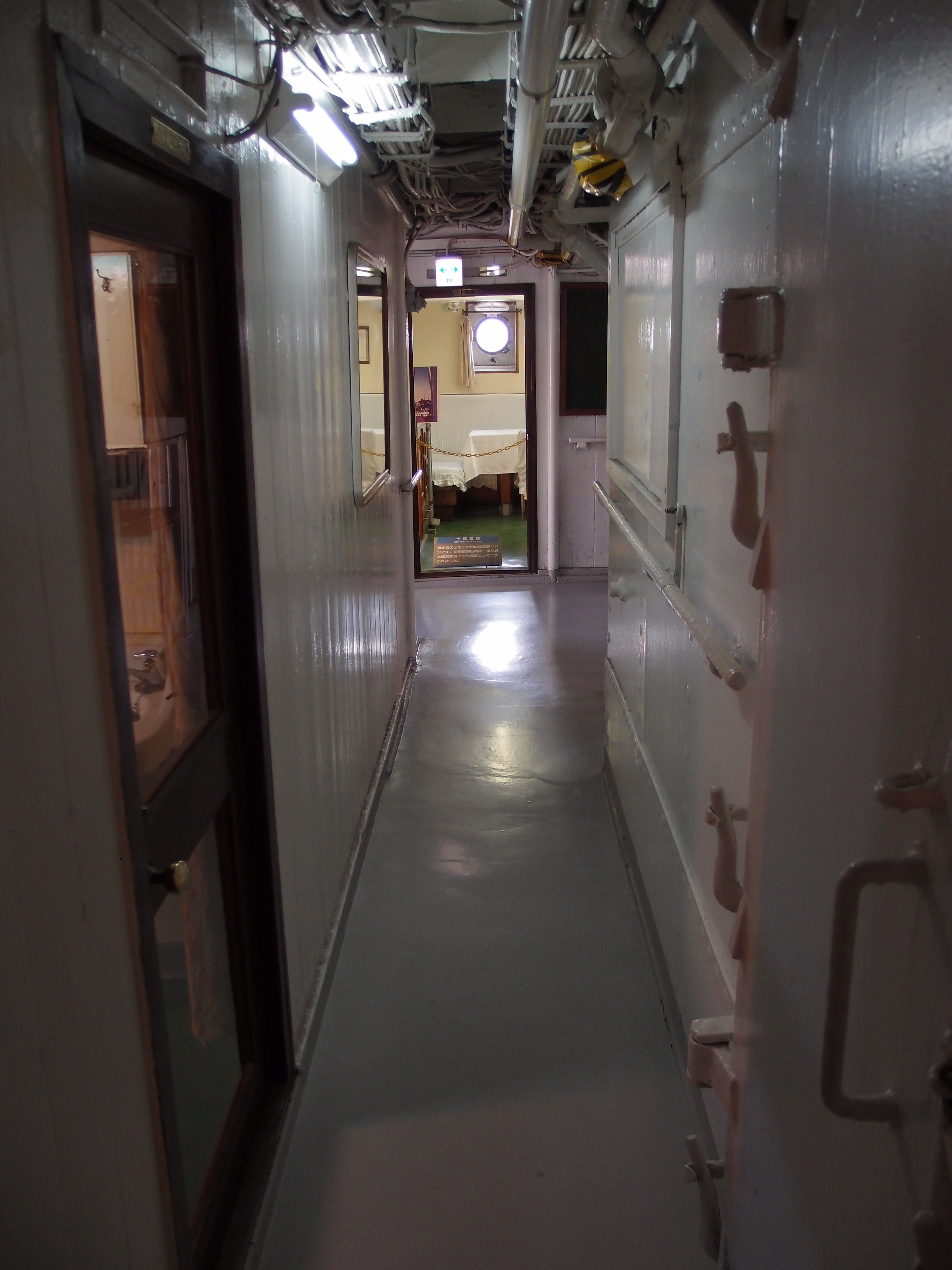 Icebreaker Soya @ Maritime Museum @ Tokyo